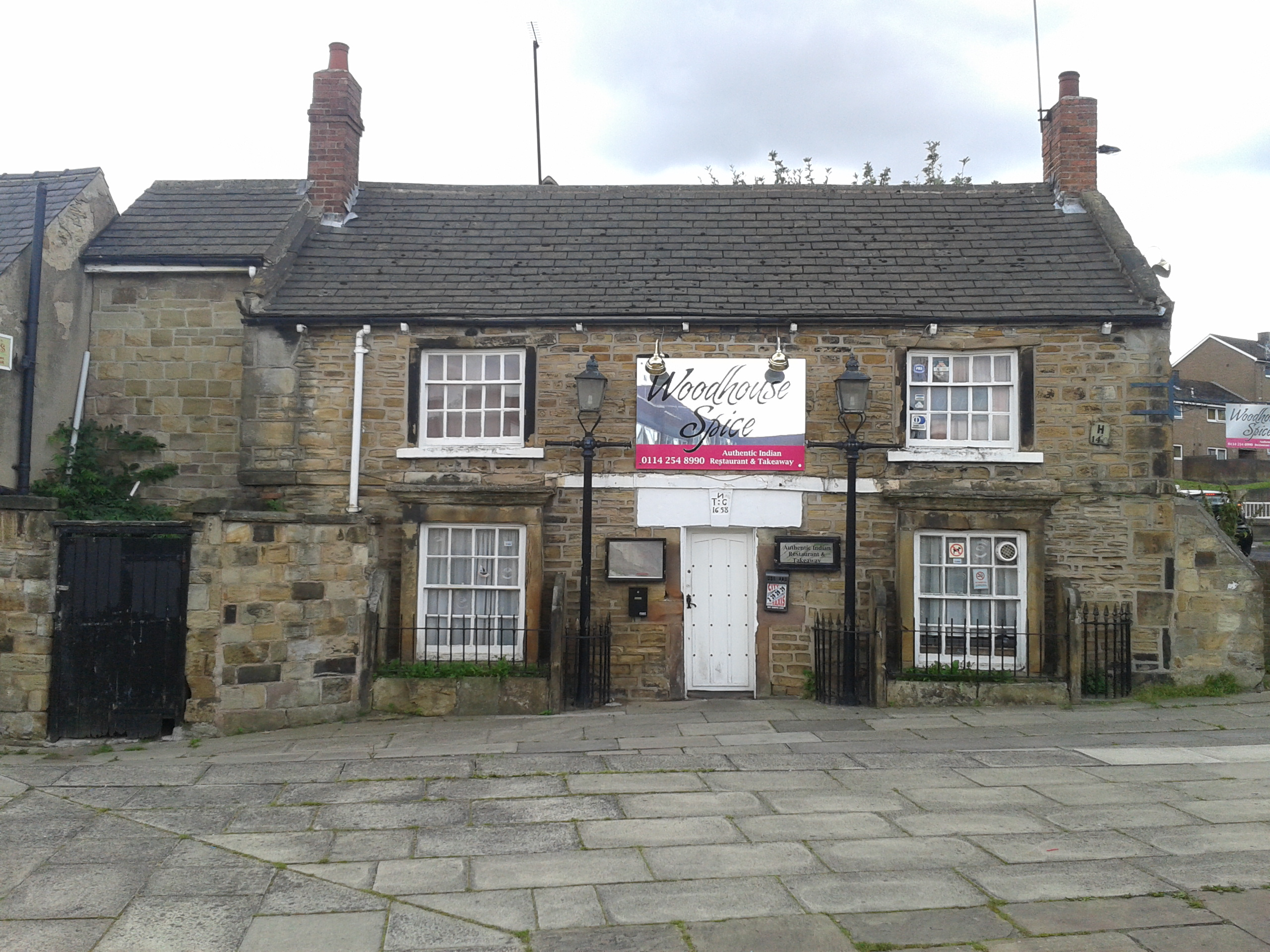 Woodhouse Spice, 14 Market Place, Woodhouse, Sheffield, South Yorkshire, seen from the north. It was built in 1658, was the Cross Daggers pub and is now an Indian restaurant and takeaway.